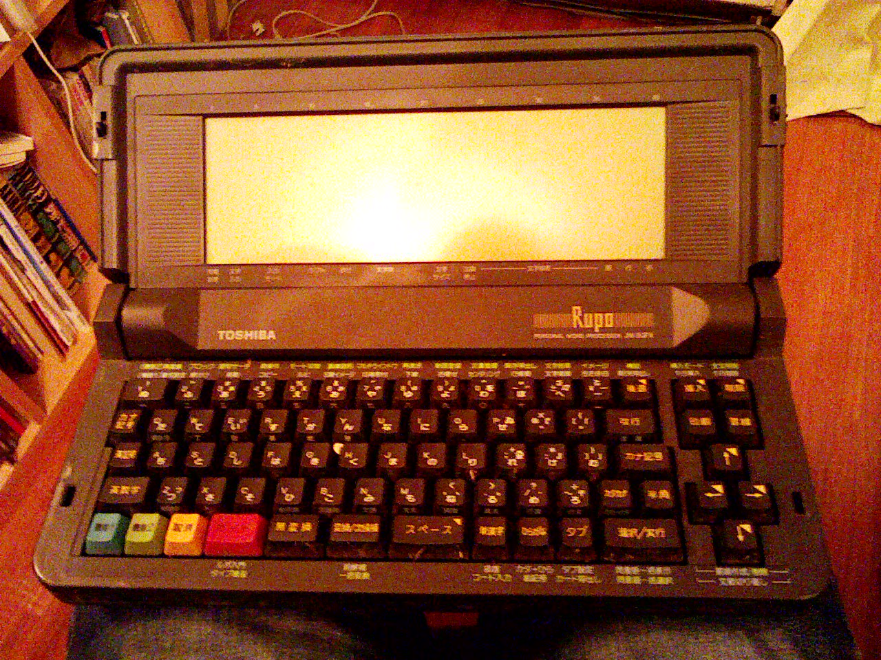 Toshiba Rupo, Japanese word processor